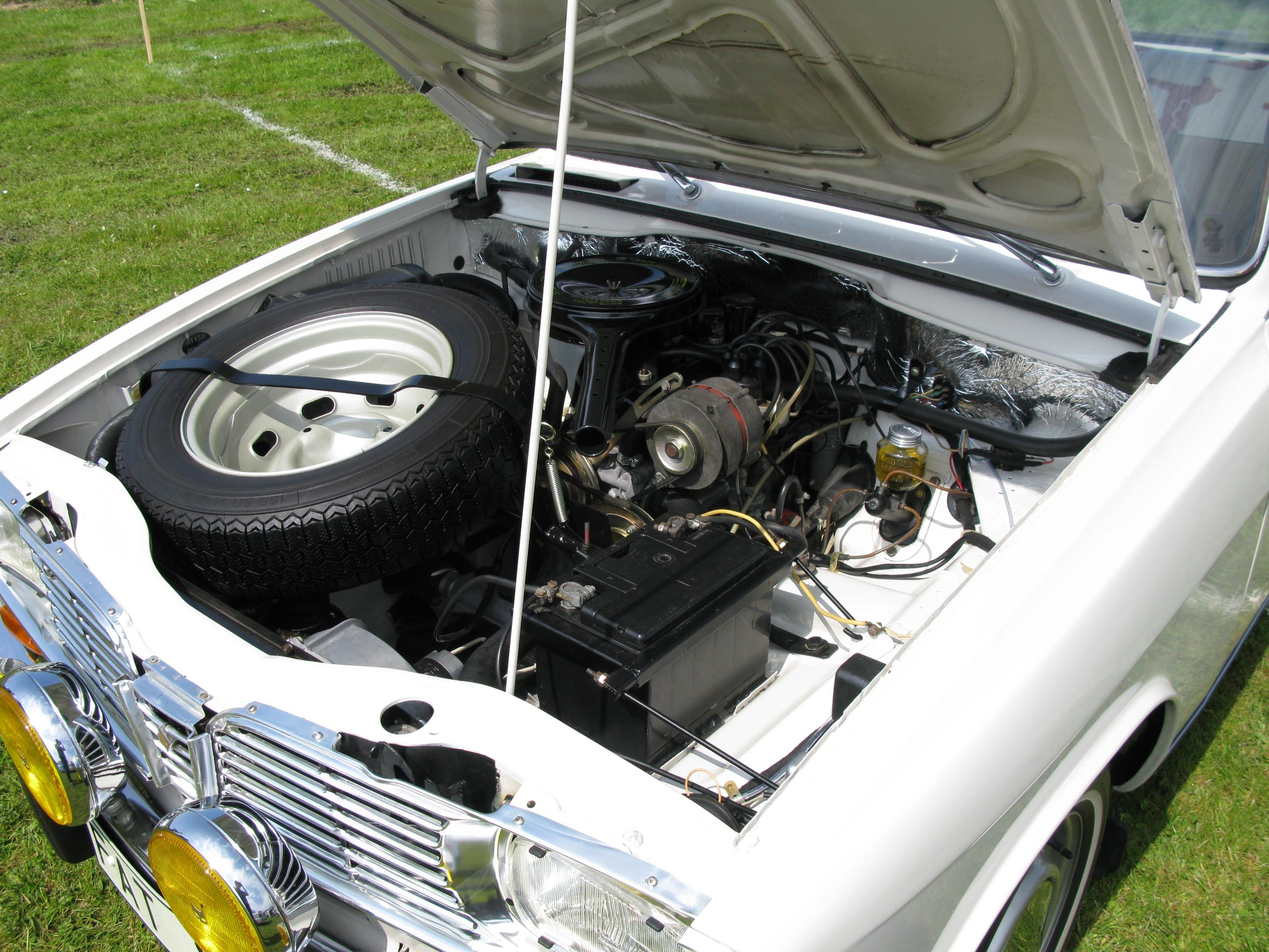 Renault 16 engine bay.Event: Tjolöholm Classic Motor 2012.